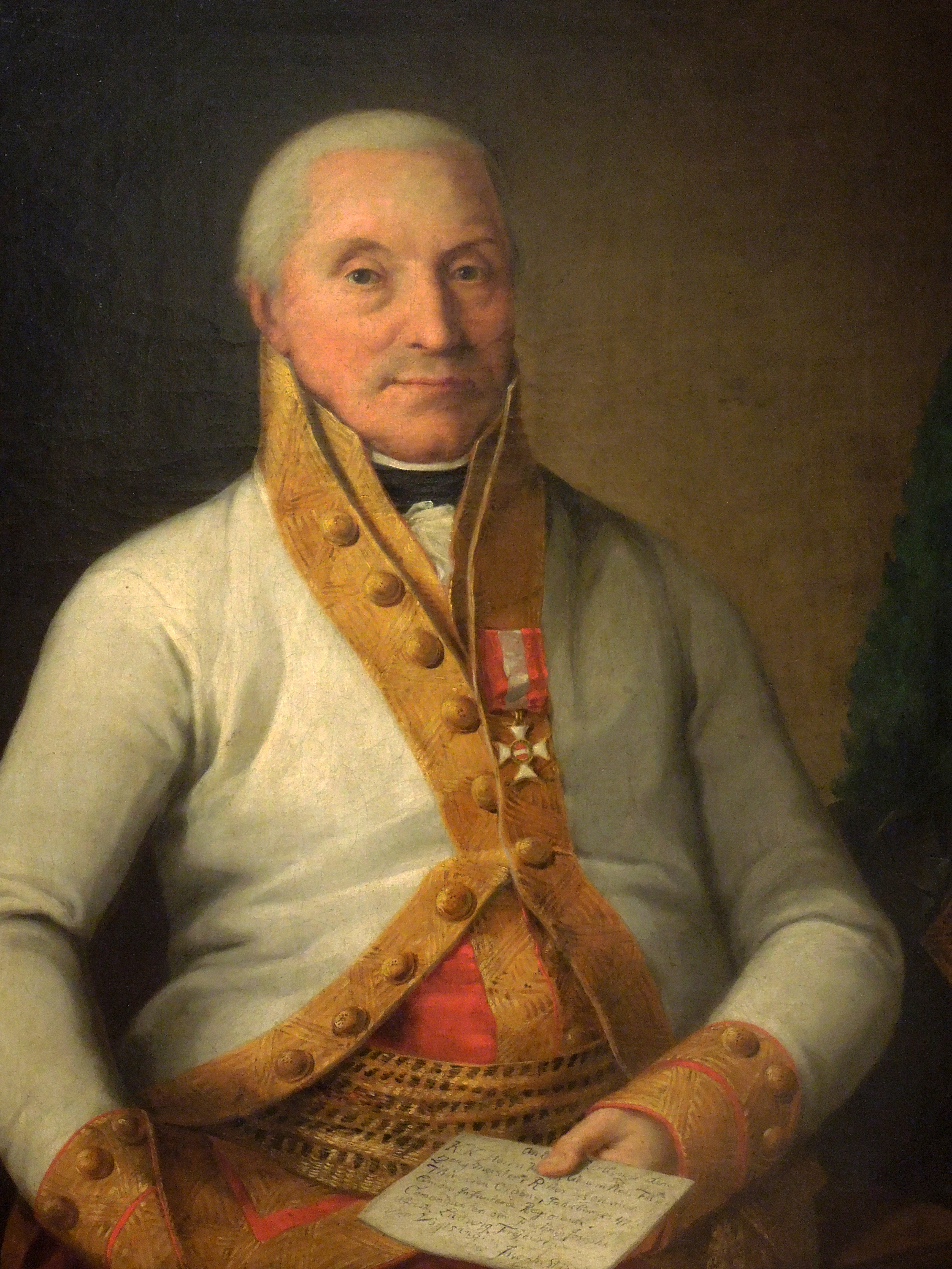 Joseph Bergler der Jüngere - Portrait of General Ludwig von Vogelsang (1810-1811)